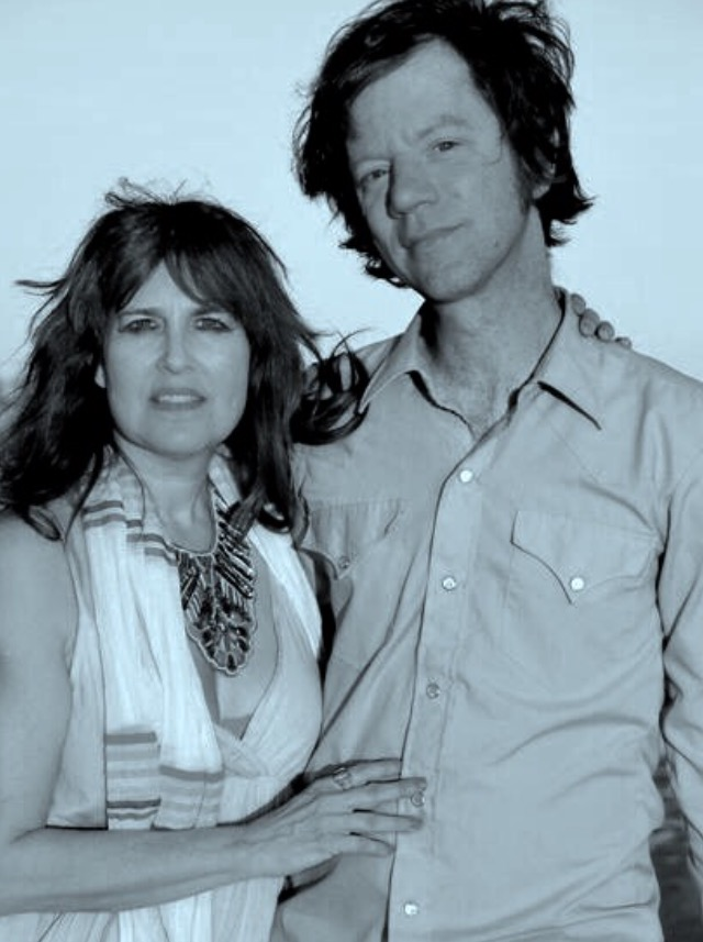 Love Dove standing next to each other